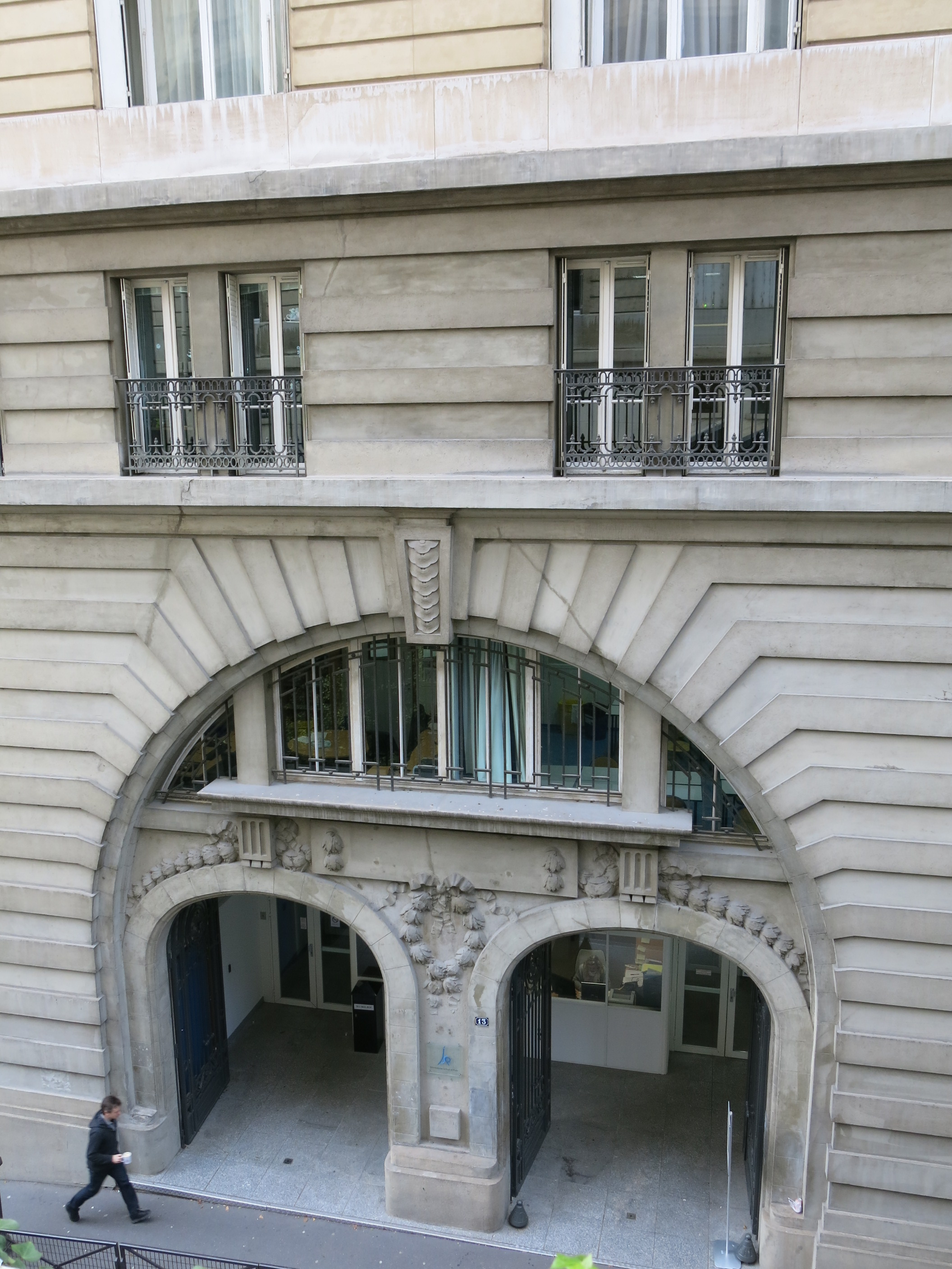 Building at 13 rue Beethoven, Paris 16th arrond. - International School of Paris secondary school